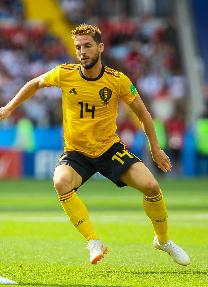 Dries Mertens